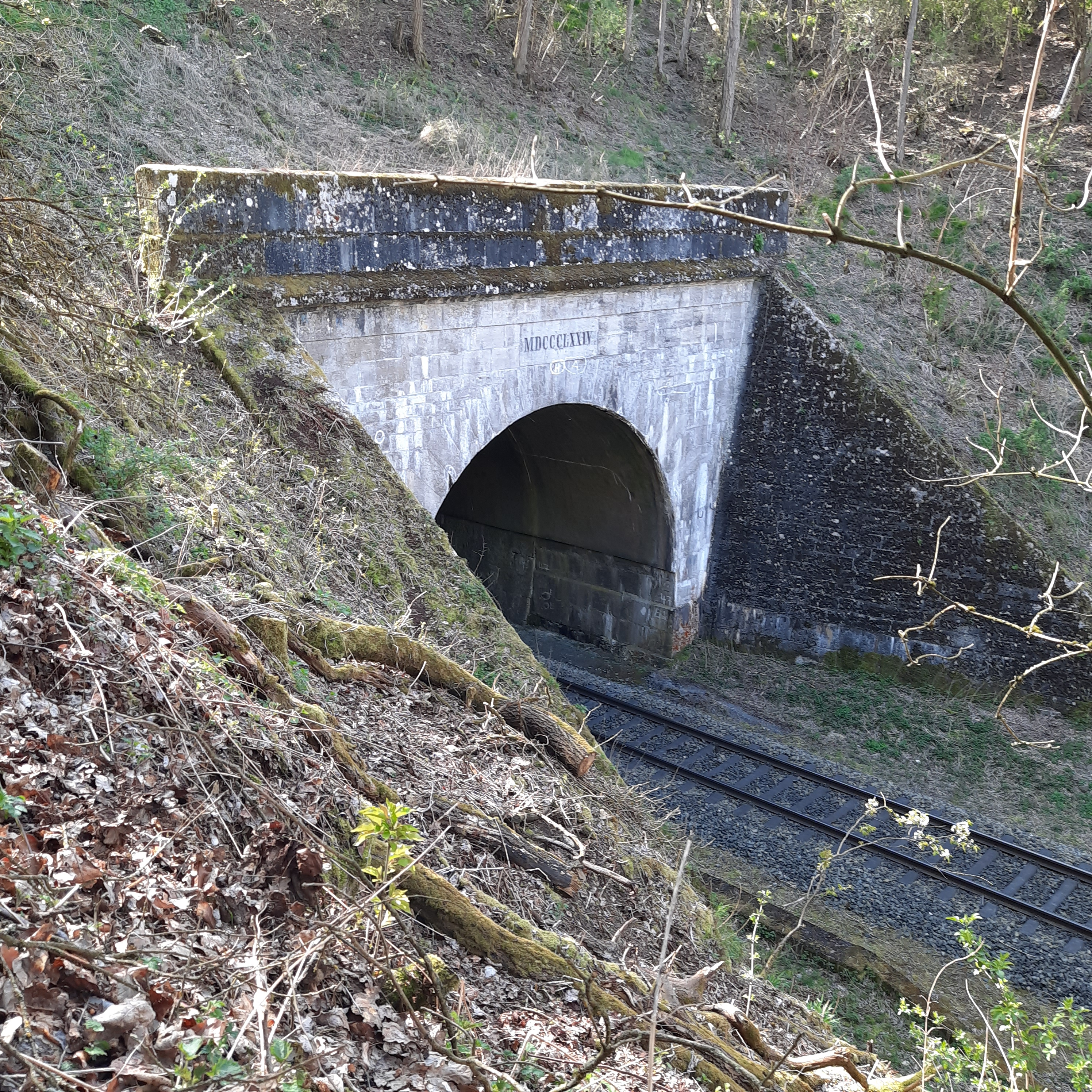 Railway-tunnel between Rannungen and Rottershausen (Bavaria)